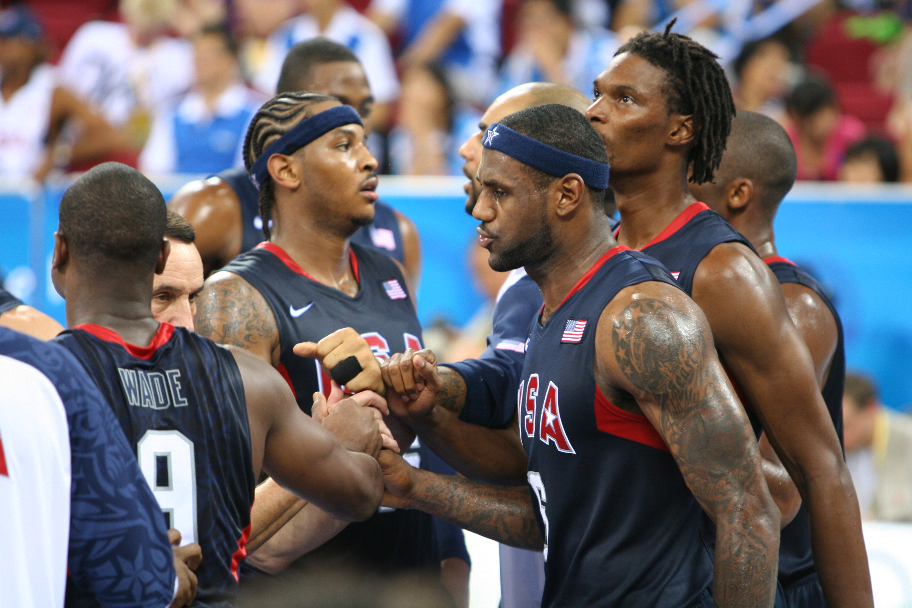 From L to R: Dwayne Wade, Carmelo Anthony, Lebron James, and Chris Bosh